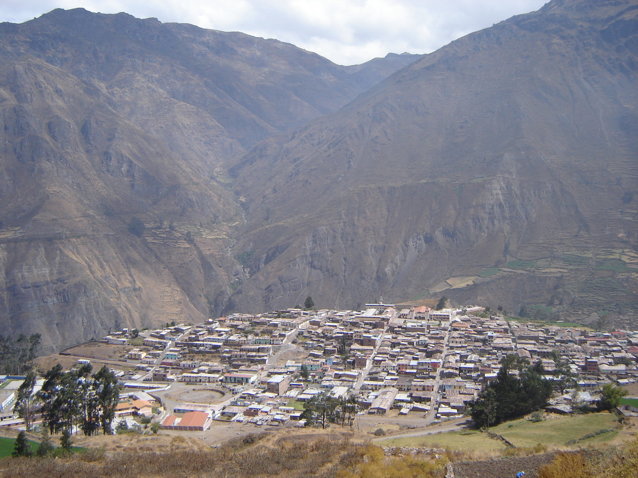 Bird's-eye view of the city of Canta in the Canta Province, Lima Region, Peru.